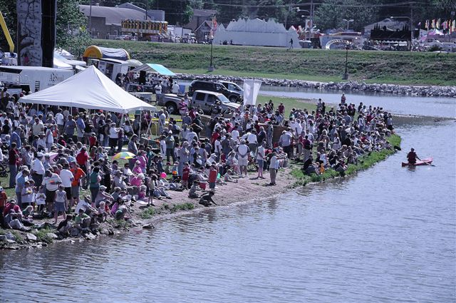 Crooked Creek/Lake Harrison used as the site for Crawdad Days.